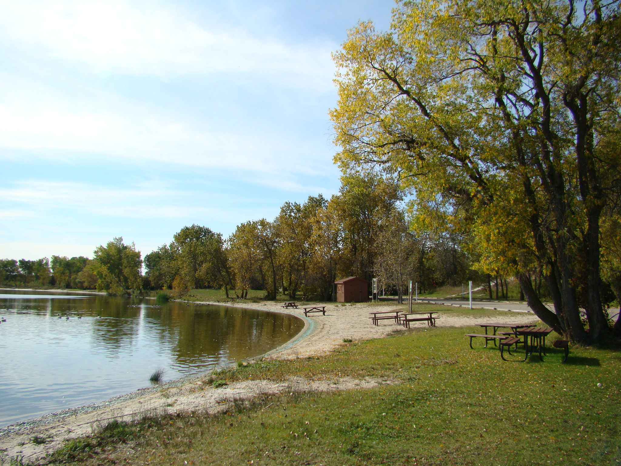 Grand Beach and Provincial Park in Lake Winnipeg in Manitoba Canada